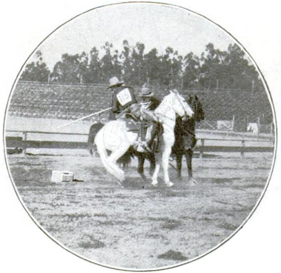 An image of riders engaging in a mounted potato race, an American rodeo event. The rider one the white horse has just scored a point by placing a potato in his side's basket.